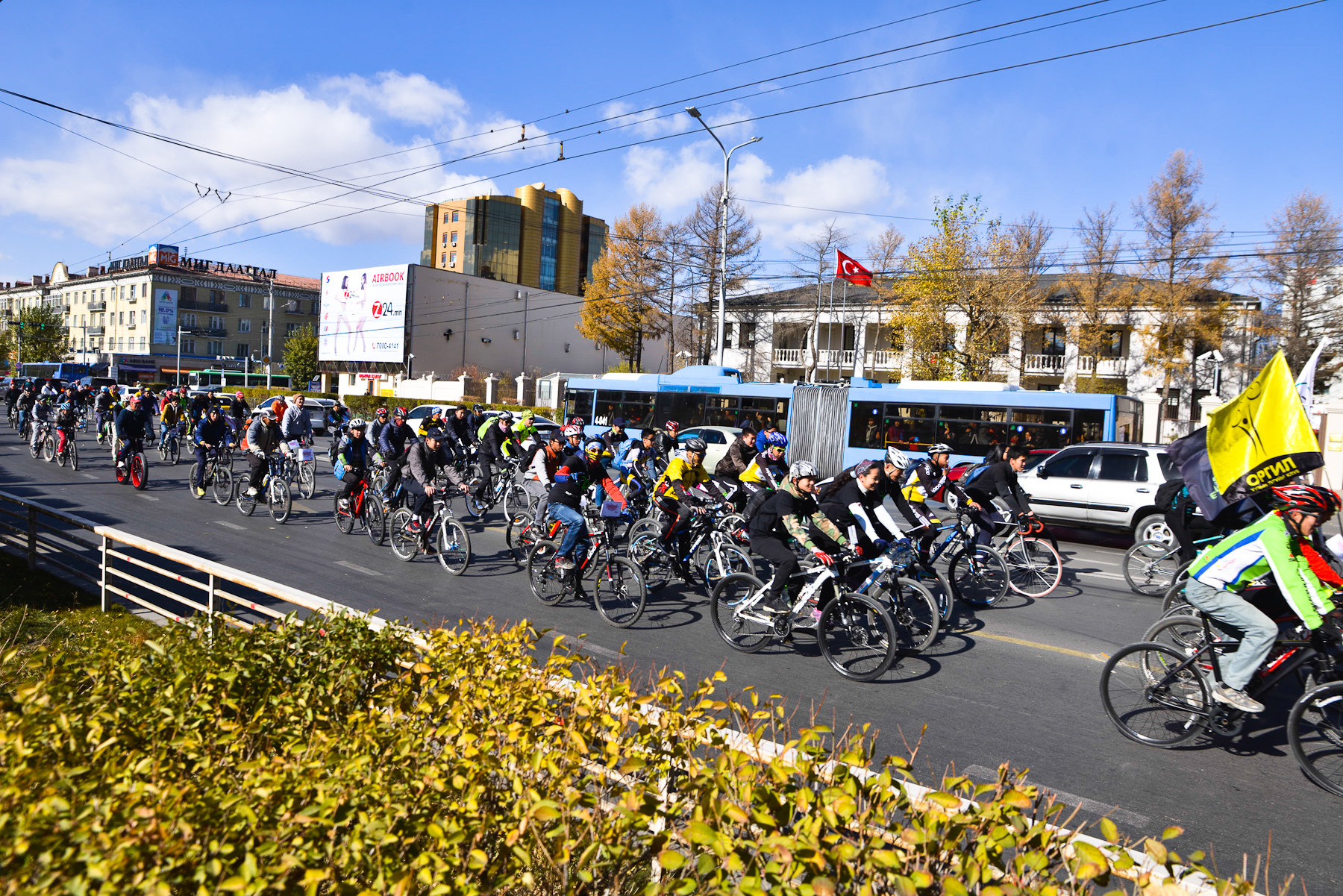 Street Cycling in UB